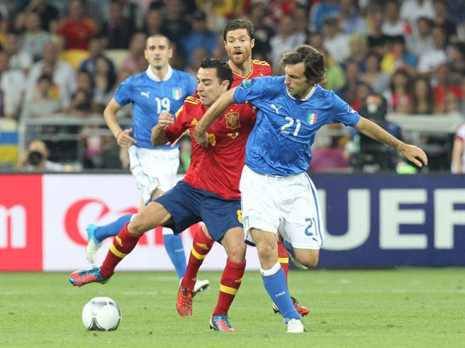 Xavi Hernández and Andrea Pirlo at Euro 2012 final Spain-Italy